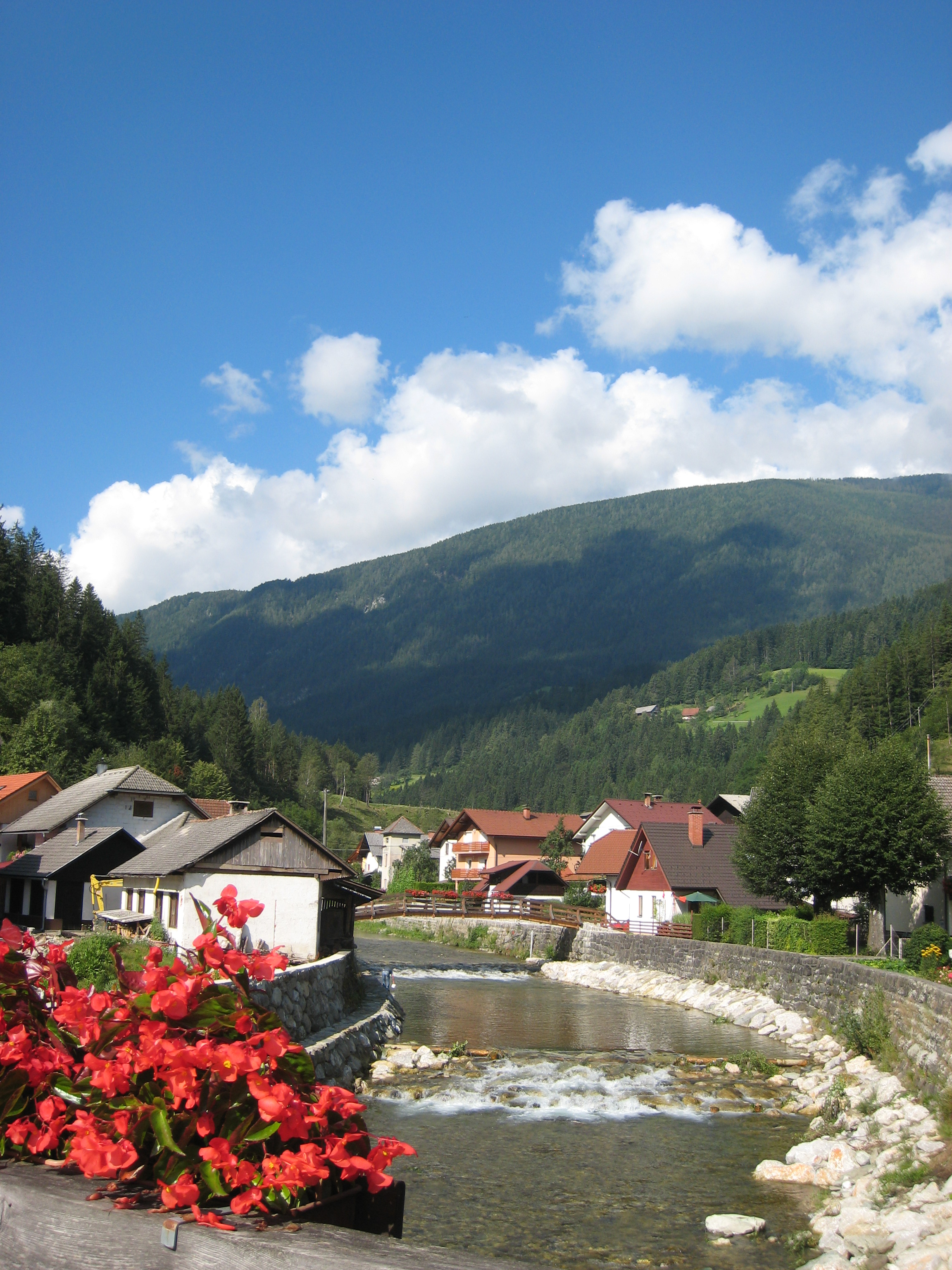 Good starting point for active holidays